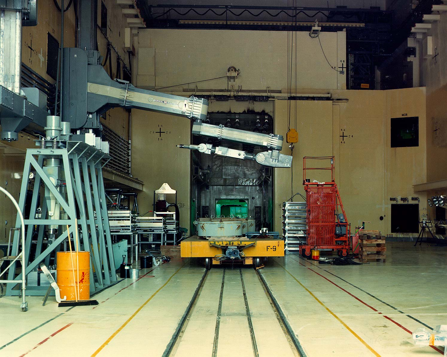 Nevada Test Site - Nuclear Rocket Development Station. The large access door to the Hot Disassembly Bay at E-MAD for hot material permits railroad car entry. A remotely-operable materials transport system, moving on the railroad track in the floor, is capable of moving loads up to 15 tons.